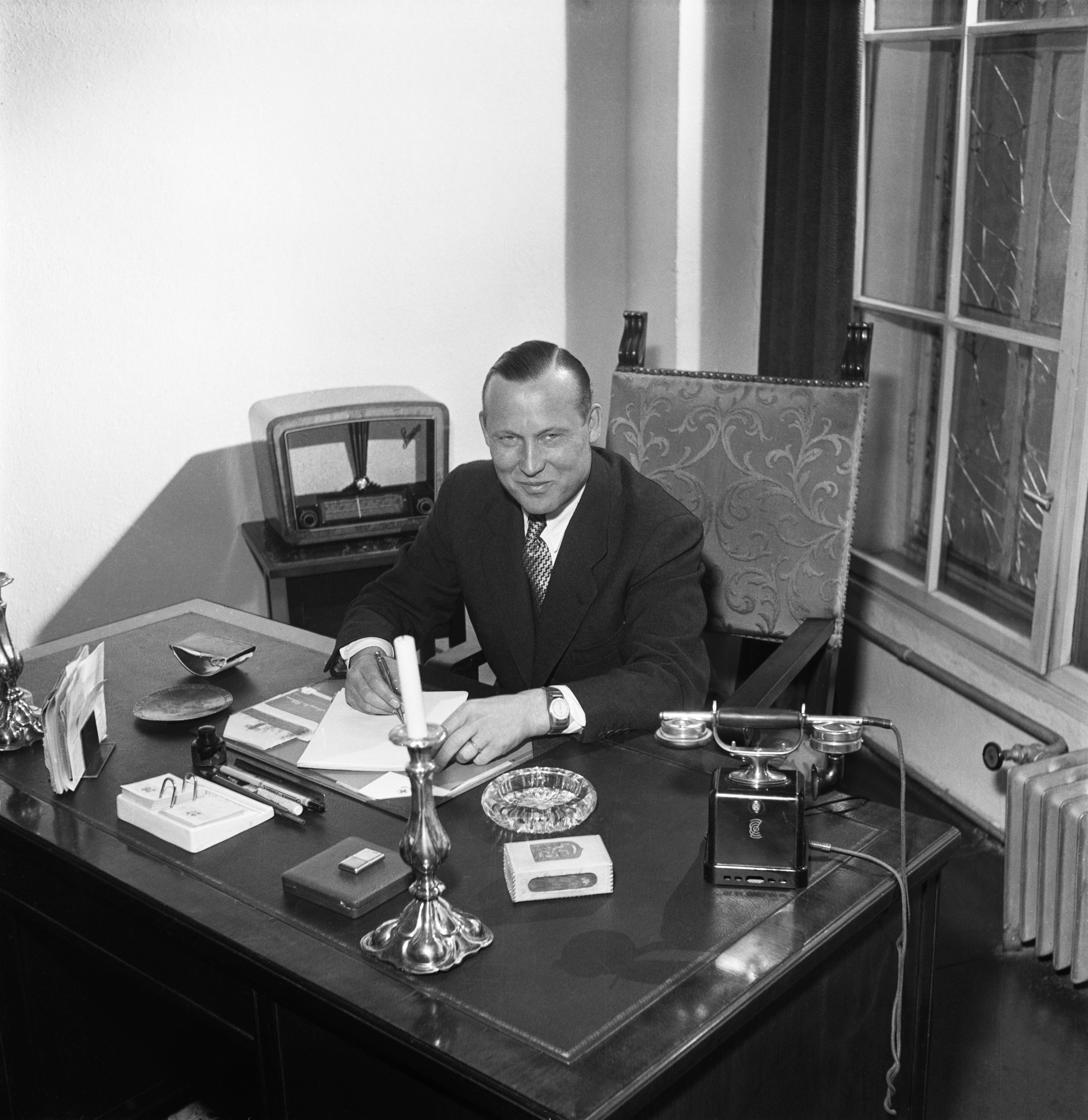 Photograph of the Finnish diplomat, councellor Toivo Heikkilä (1906–1976) in Berlin.